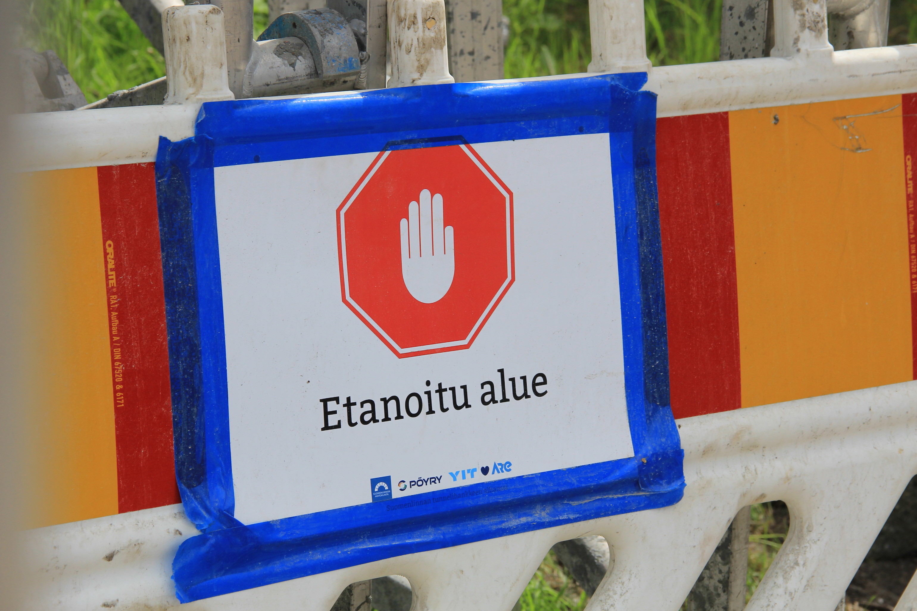 Suomenlinna maintenance tunnel entrance on Länsi-Musta, Suomenlinna, Helsinki, Finland. - Warning sign for non-explosive demolition agents (in finnish).